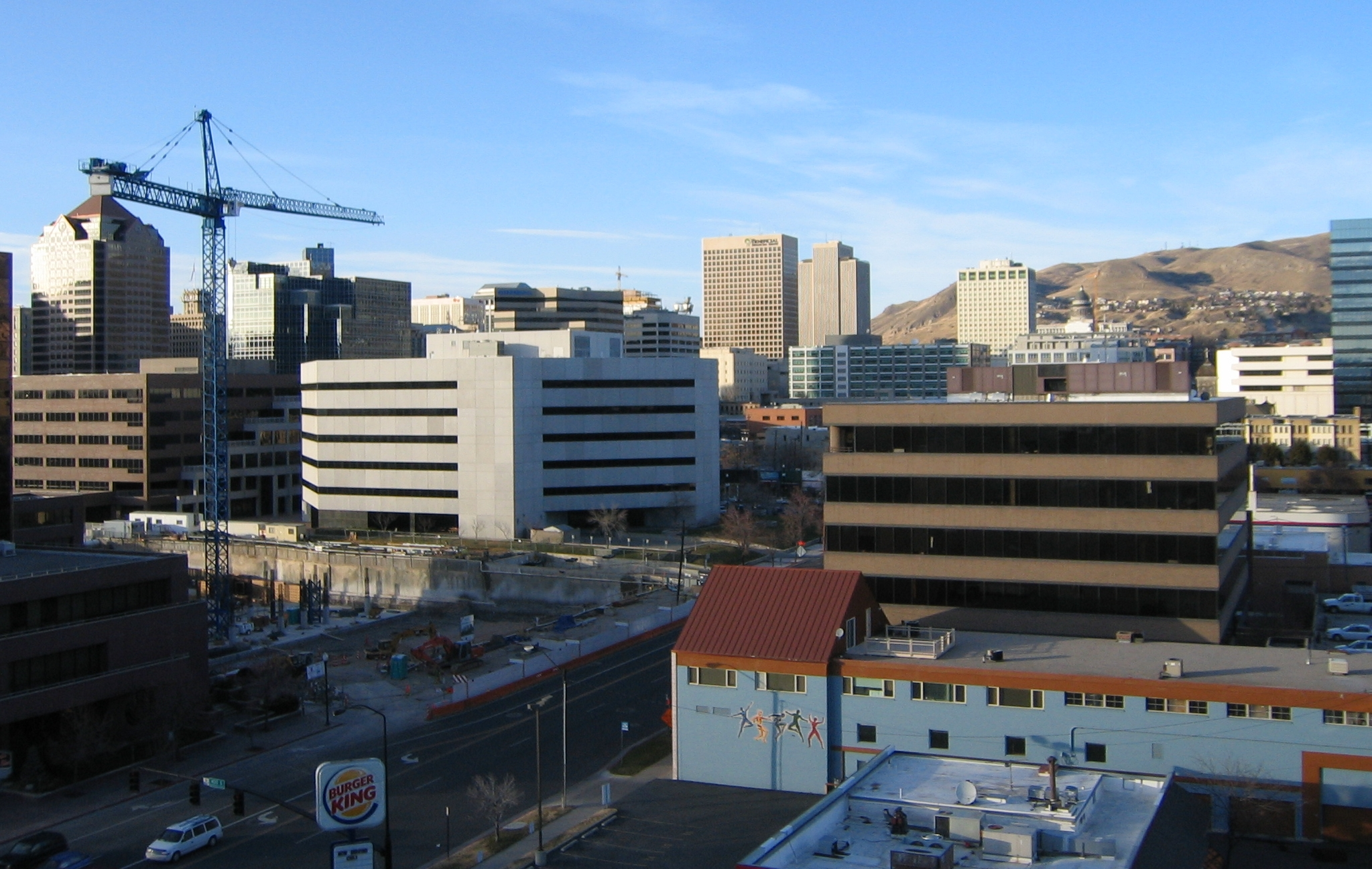 I captured this.